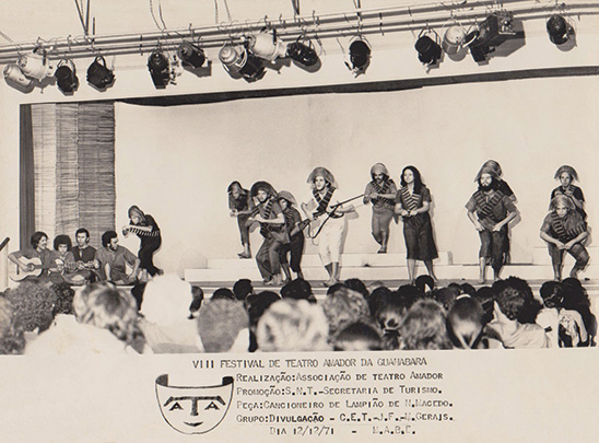 "Cancioneiro de Lampião", 2º colocado geral no Festival de Teatro Amador da Guanabara de 1971.